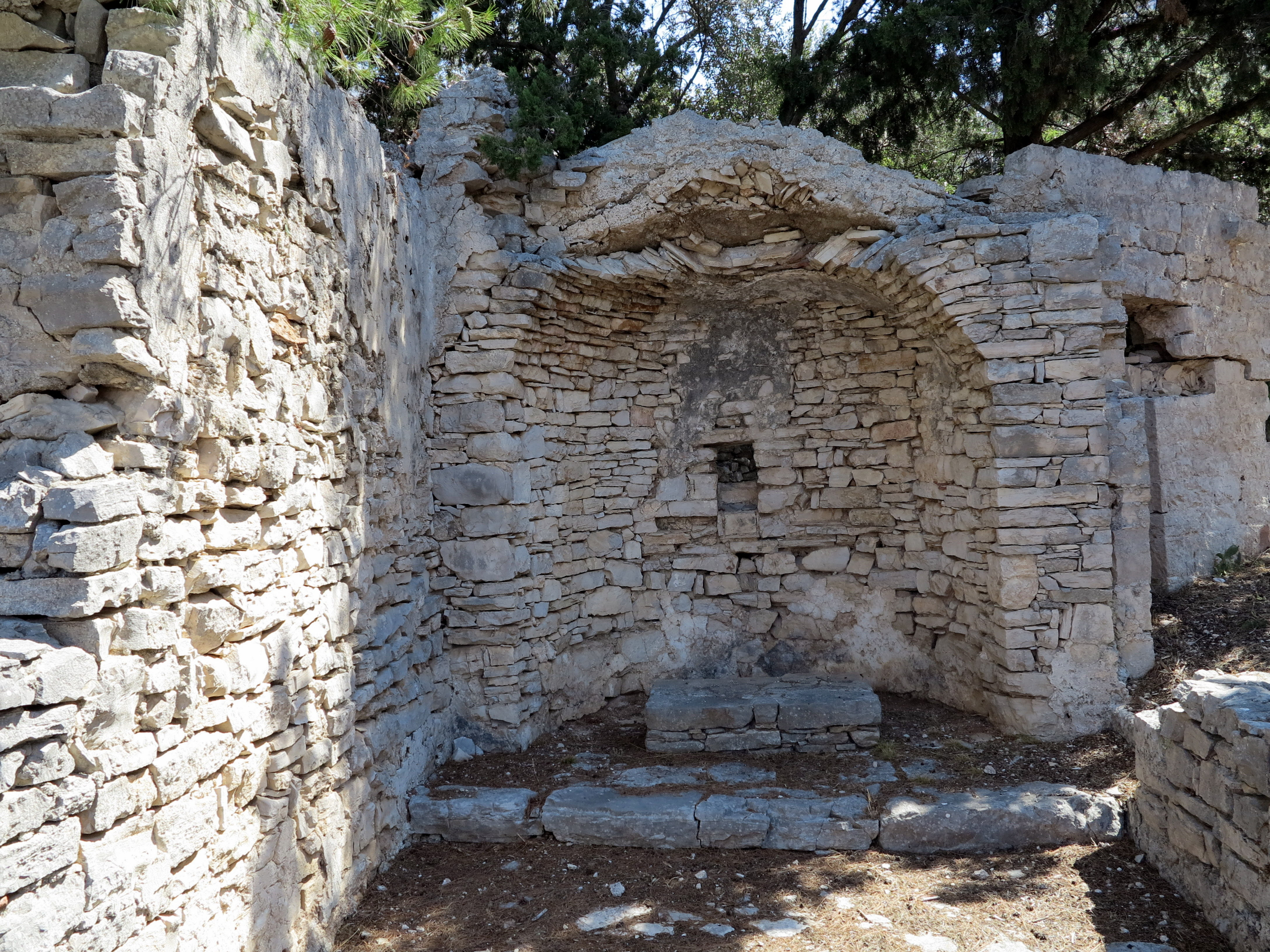 Šolta / Croatia / Adriatic Sea.